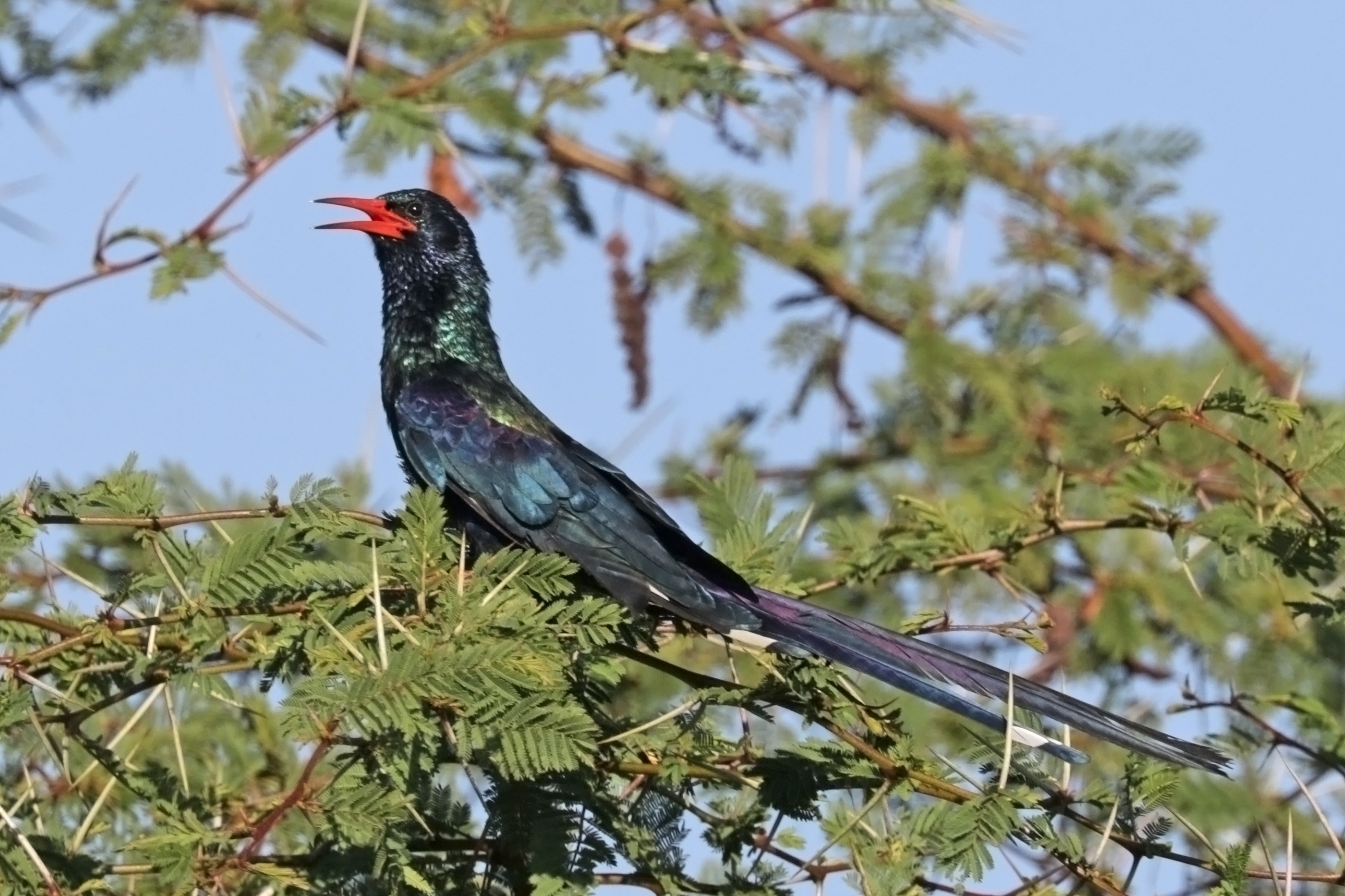 Green wood hoopoe (Phoeniculus purpureus angolensis), Matetsi Safari Area, Zimbabwe